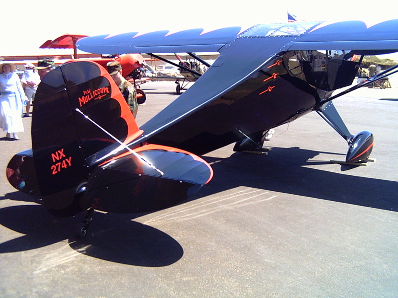 Photo taken by Lance Barber at Vintage Aero Flying Museum, Platte Valley Airpark, March 2007. Free to public domain. Request standard "Courtesy of" line for photo use outside of Wikipedia. Thank you.